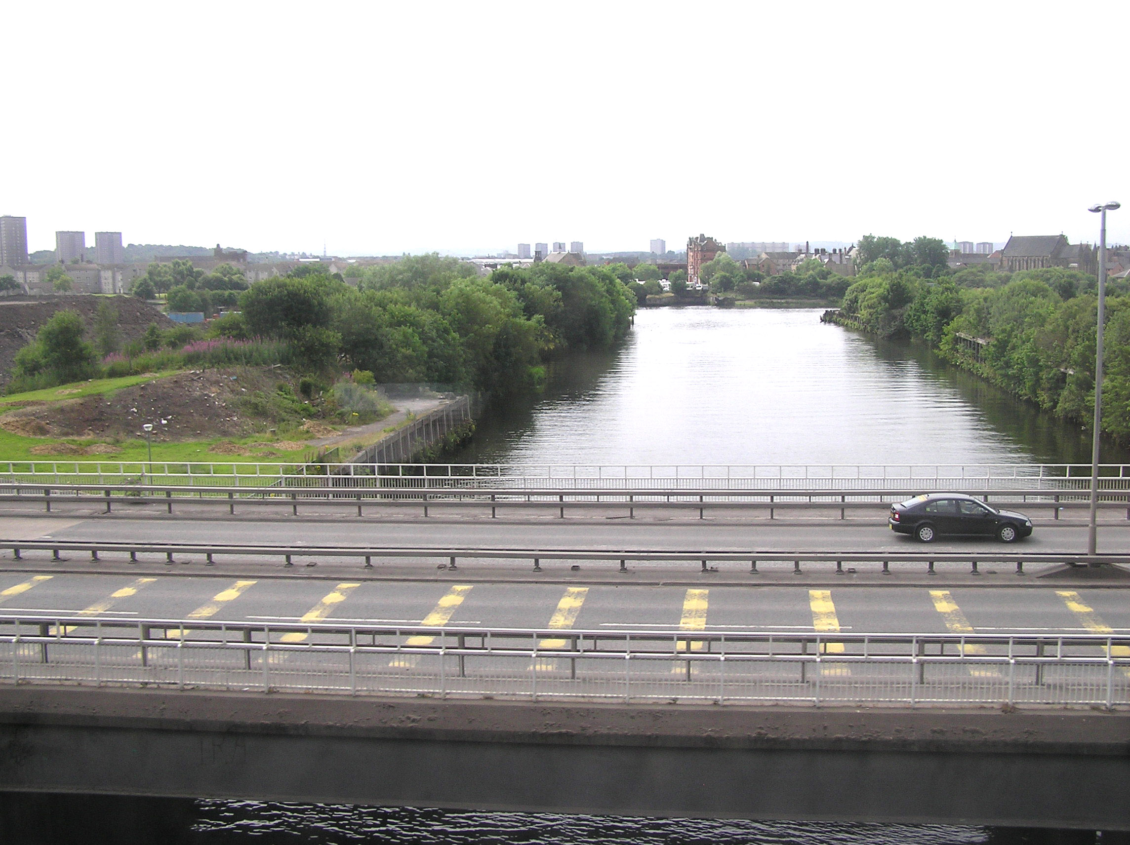 The River Kelvin flows into the River Clyde in Glasgow, Scotland. View is southward looking downstream toward the Clyde.